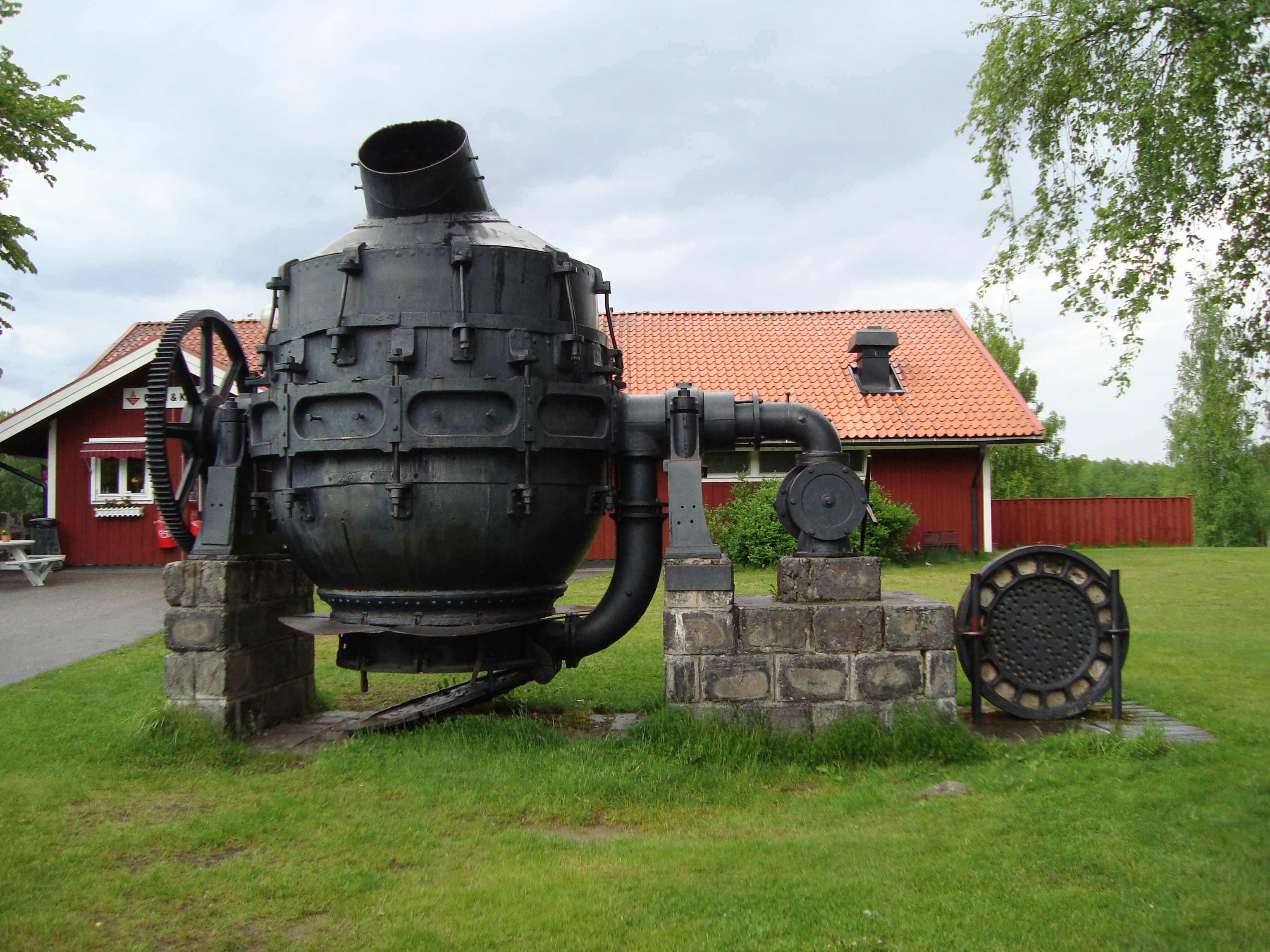 Former ironworks of Högbo, Sandviken Municipality, Sweden